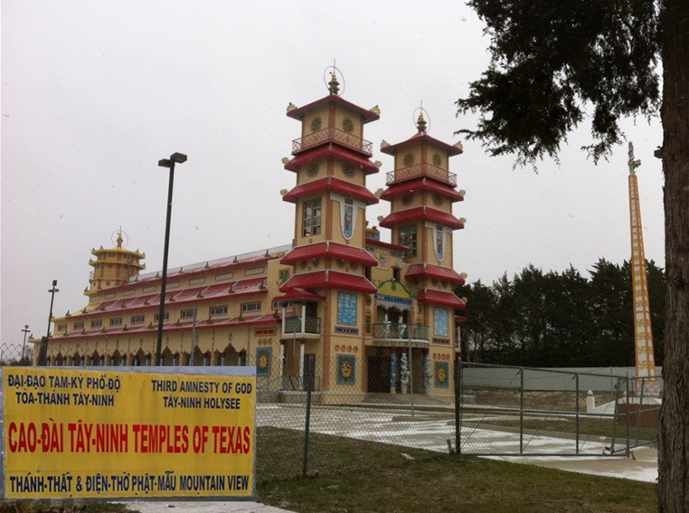 Cao Đài temple in southwestern Dallas, with sign inset into corner.